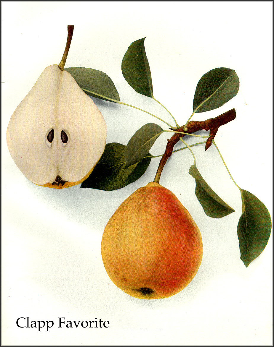 A colour plate from The Pears of New York (1921) depicting the Clapp Favorite pear cultivar.